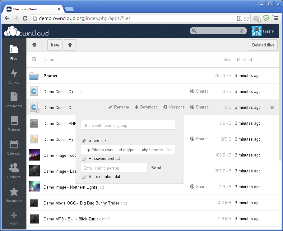 An open source Dropbox-like cloud storage service